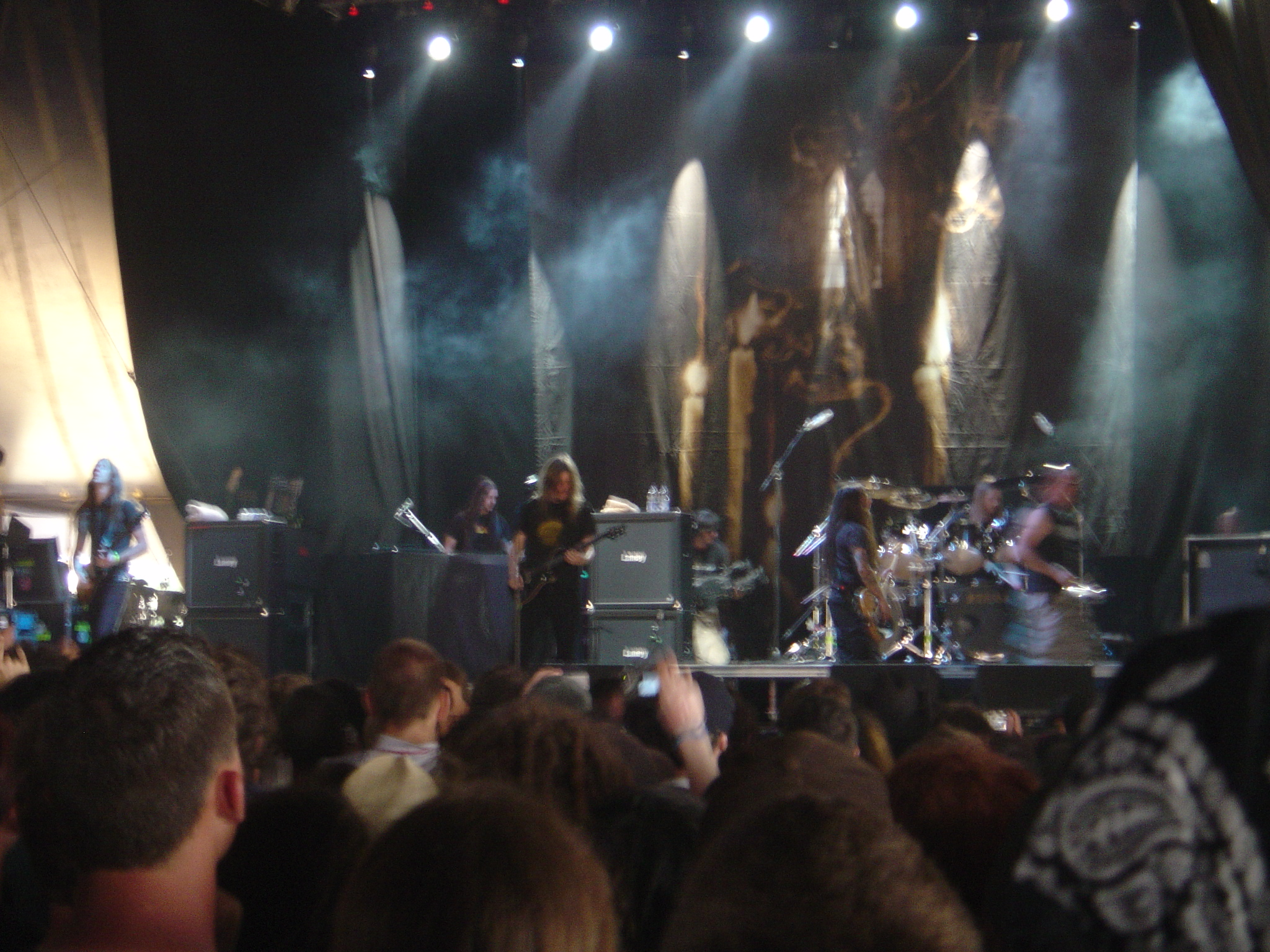 Opeth performing at the Download Festival in June 2006. From left to right: Peter Lindgren, Per Wiberg, Mikael Åkerfeldt, Martin Mendez, Martin Axenrot.